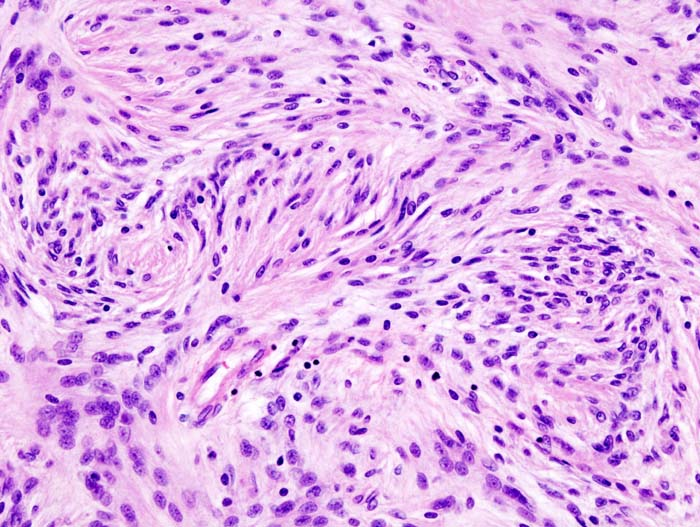 Histopathologic image of intracranial meningioma. The author considers it to represent a transitional variant. H & E stain.